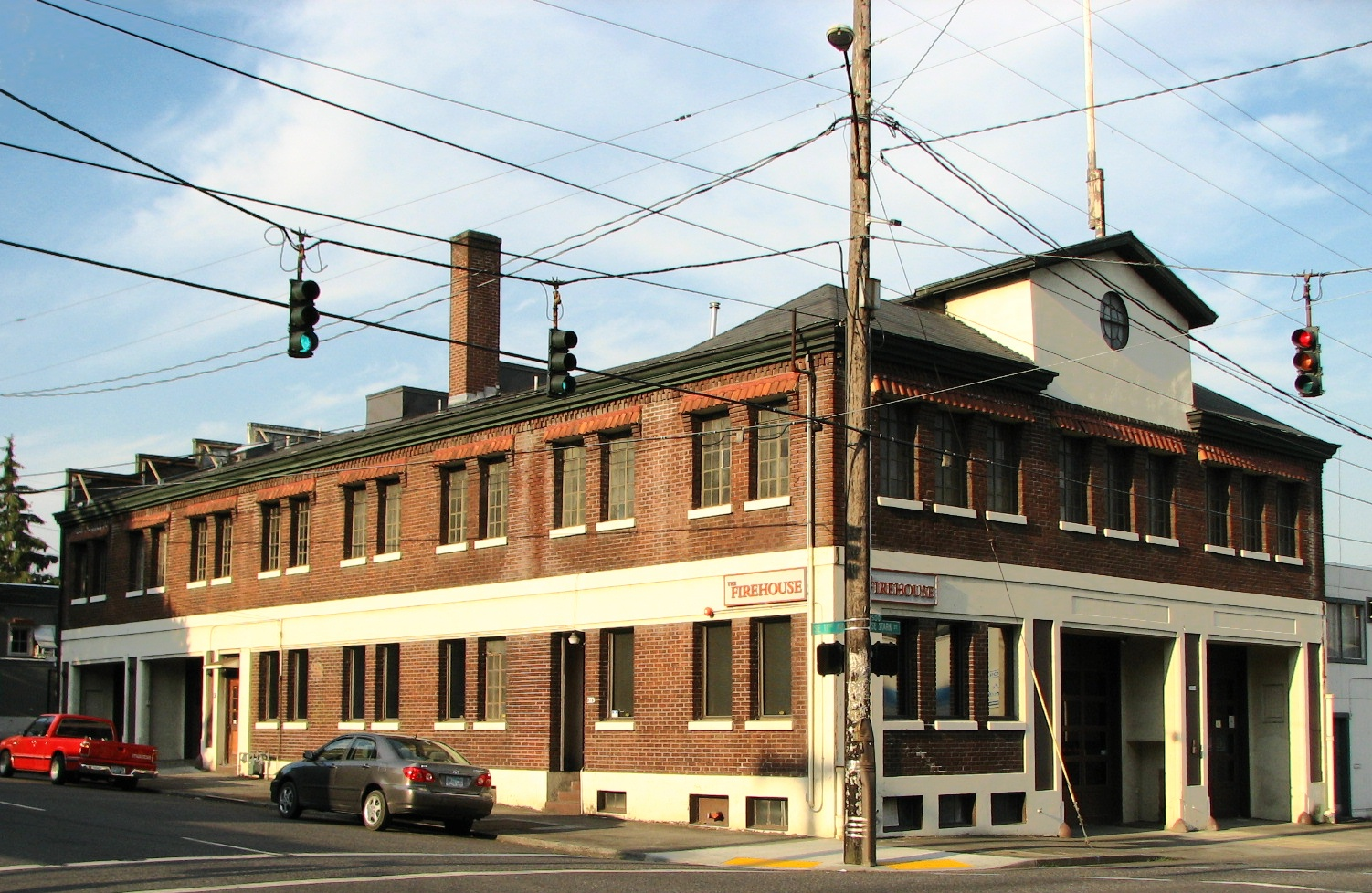 The historic Portland Fire Station No. 7 (built 1927), located at 1036 Southeast Stark Street in Portland, Oregon, United States, is listed on the US National Register of Historic Places. It is no longer in use for fire protection services.